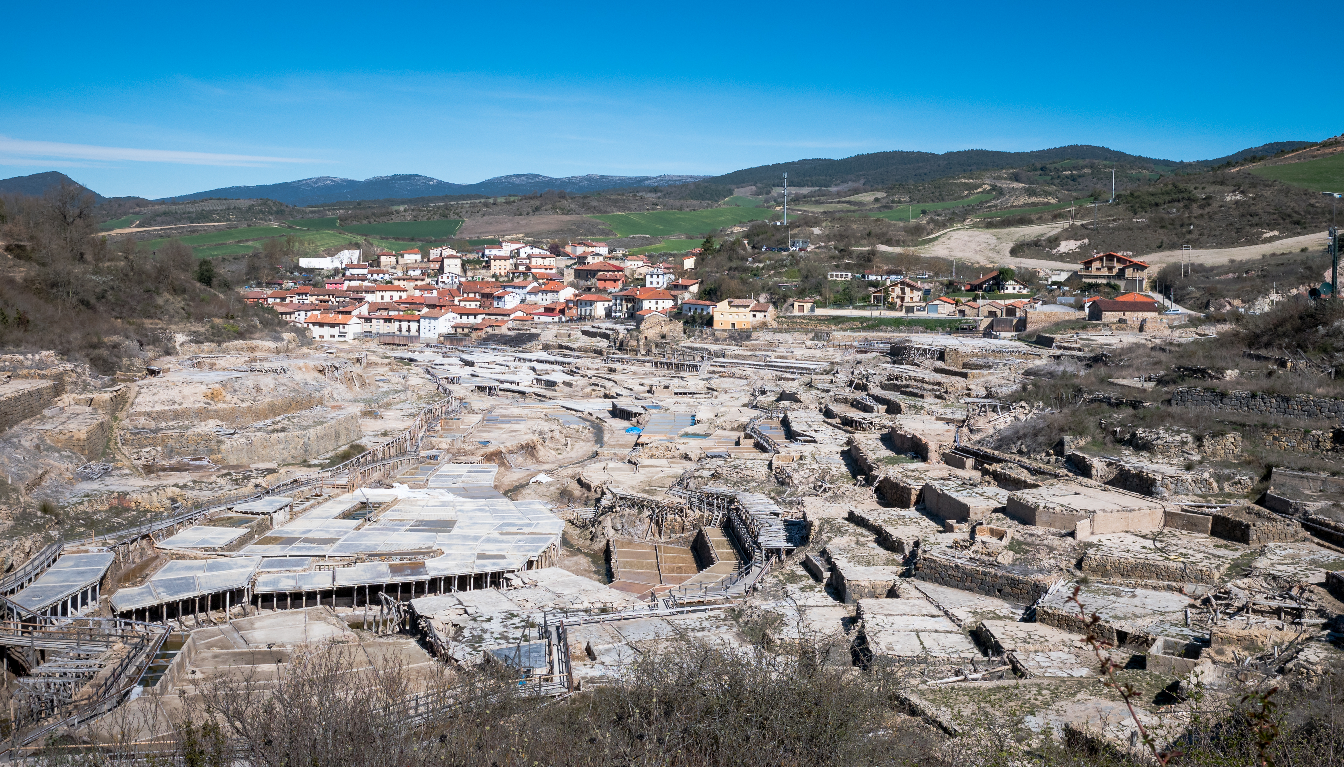 View over Valle Salado ("Salty Valley") at Salinas de Añana; former and reconstructed salt evaporation ponds. Álava, Basque Country, Spain